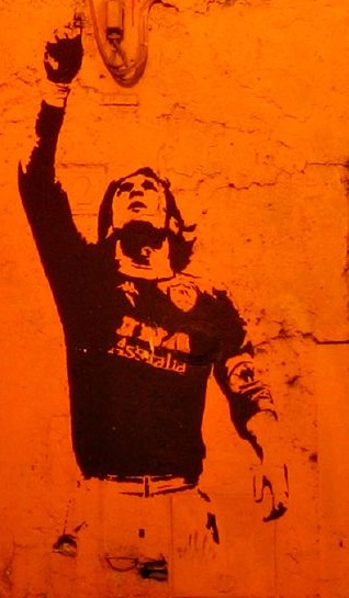 Cropped version of File:Totti-a.s.Roma-celebration.jpg.